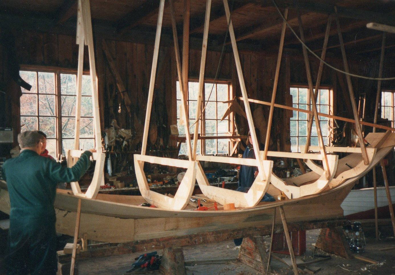 A traditionally Swedish wooden boat from the region Blekinge 1983.